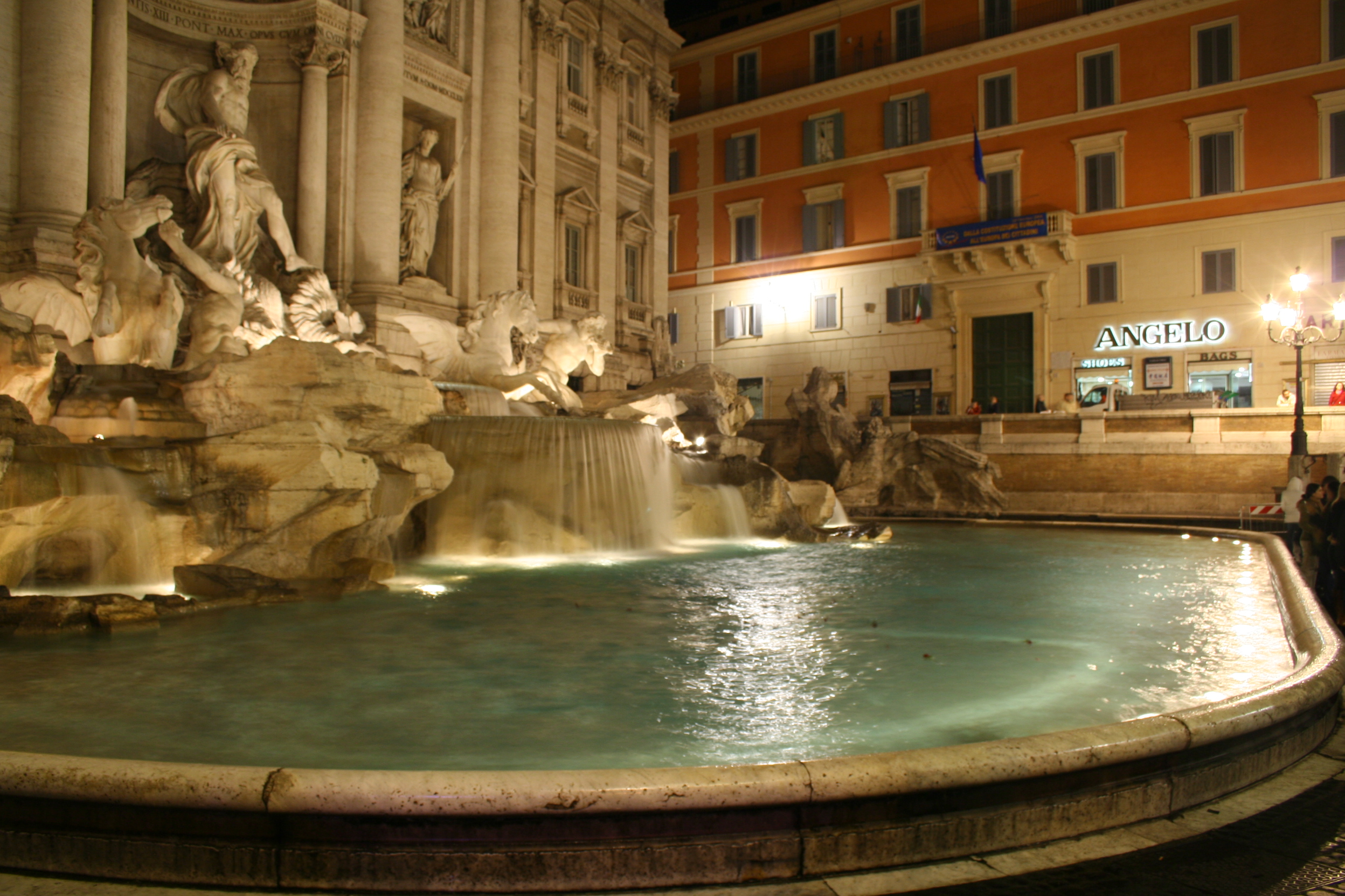 Photo specifications: Dimensions: 2496 x 1664 px Resolution: 72 dpi Equipment : Canon EOS 350D digital 3 Focal length : 18 mm (35mm equivalent = 30mm) ISO speed : ISO-200 Exp Program : Manual Exp Compensation: -/+ 0 step Date shot : November 24, 2006 10:17PM Venue : Trevi fountain, Rome